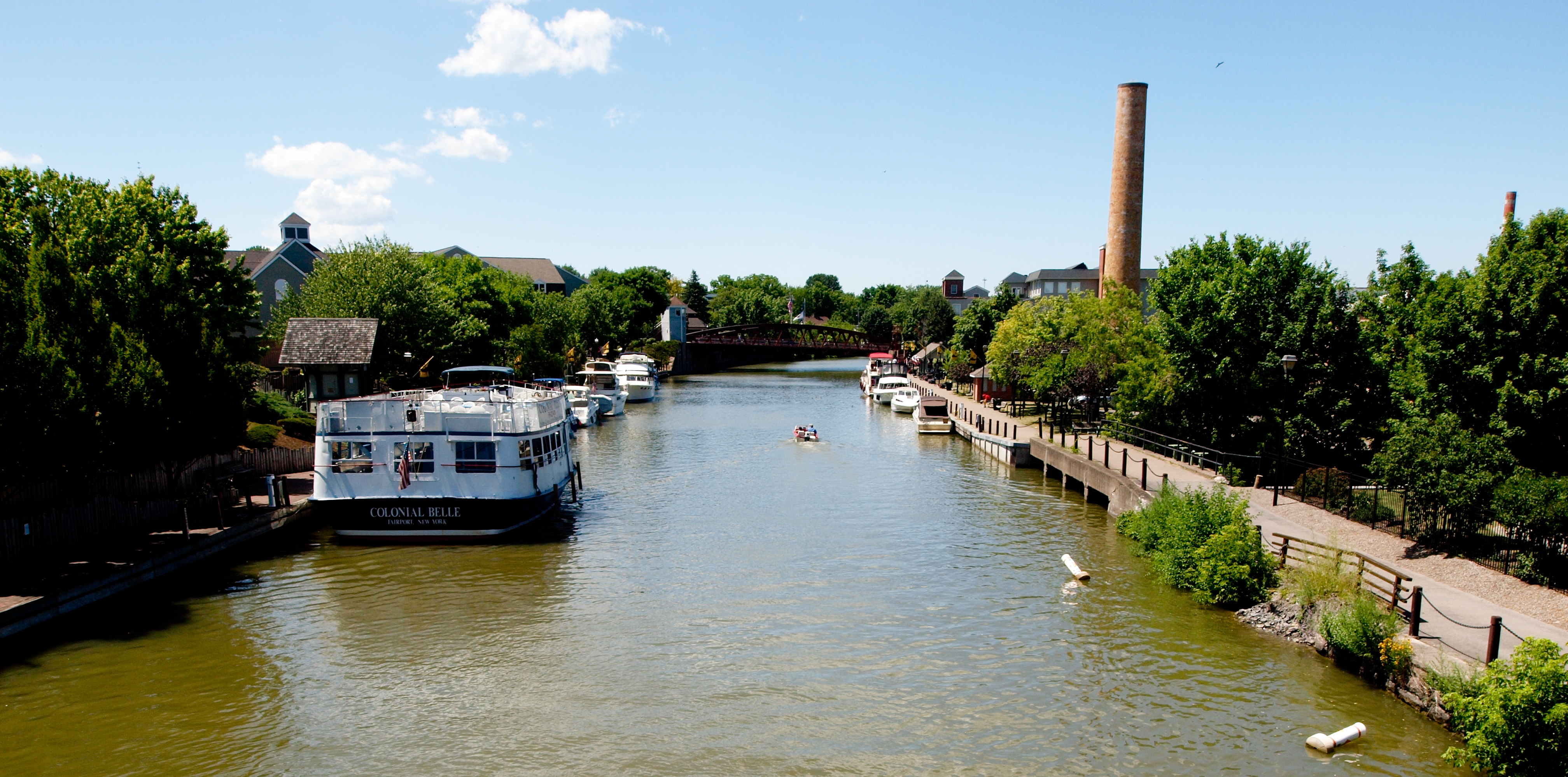 Erie Canal in Fairport, NY. June 30, 2012.